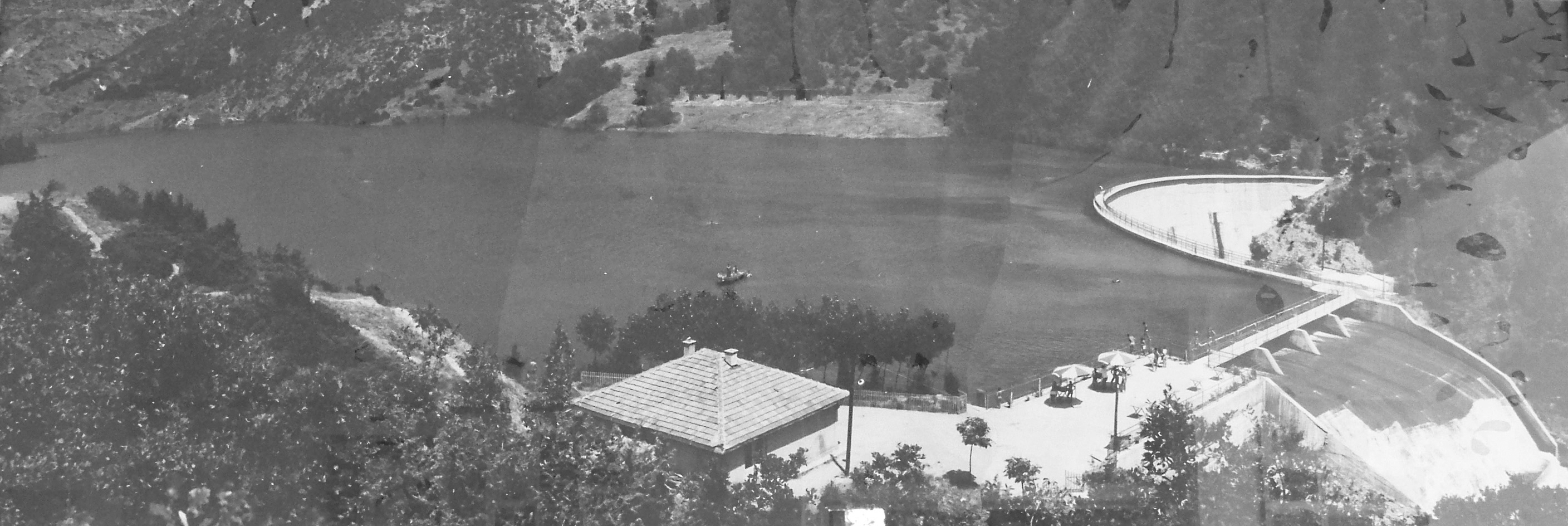 An old photo of Gratce lake, Kocani, Republic of Macedonia